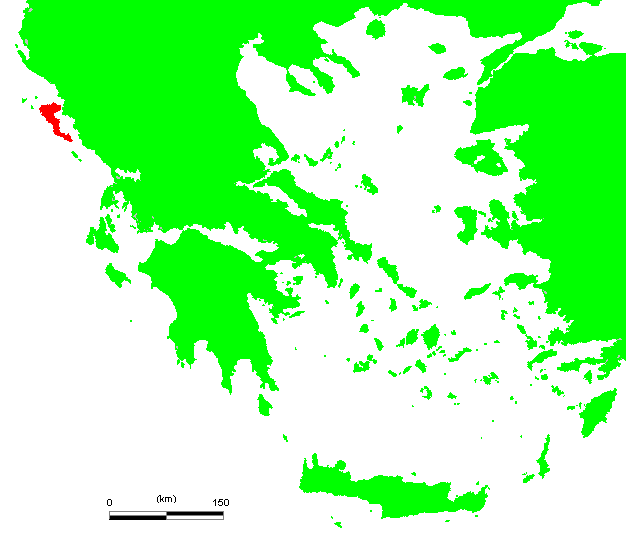 GR Corfu.PNG (Greek island)